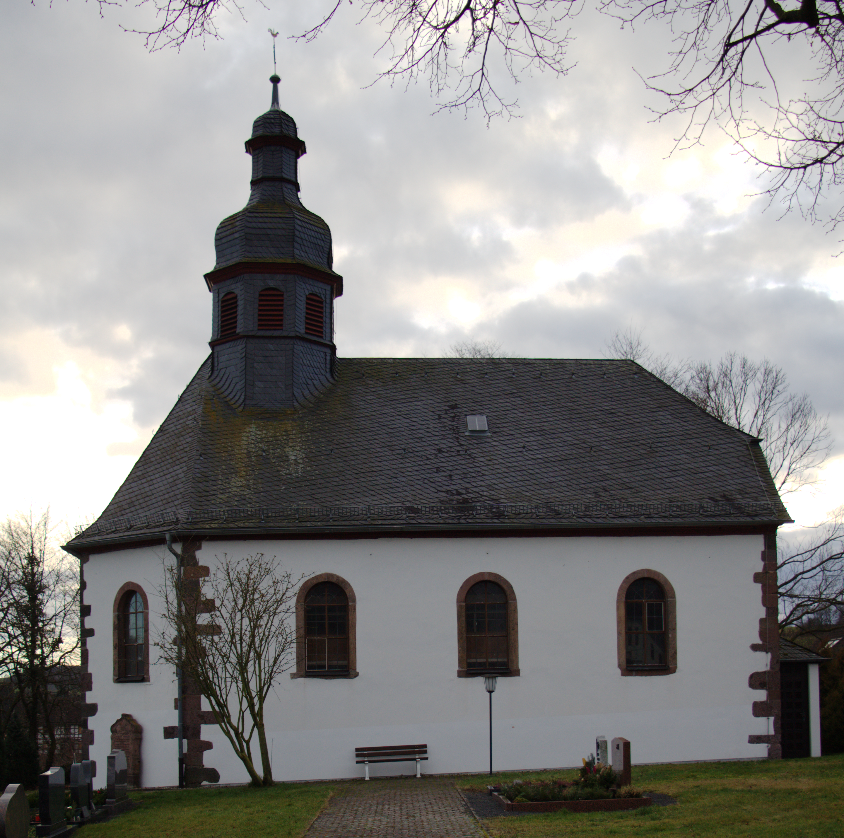 Church in Vadenrod / Schwalmtal / Hesse / Germany